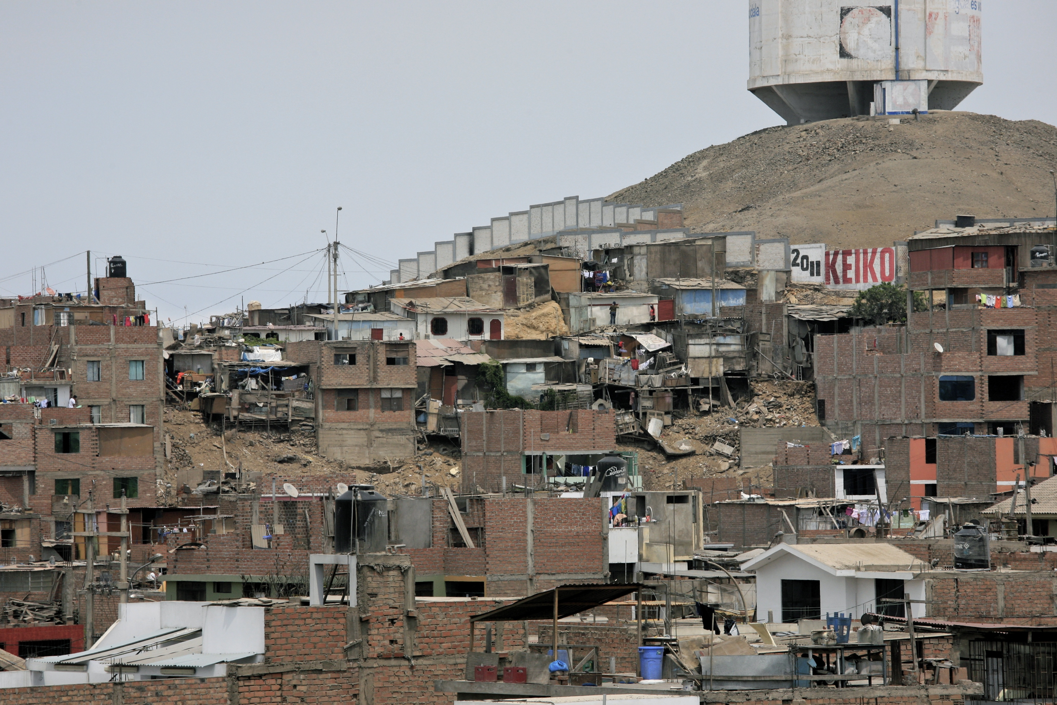 Slums of Peru